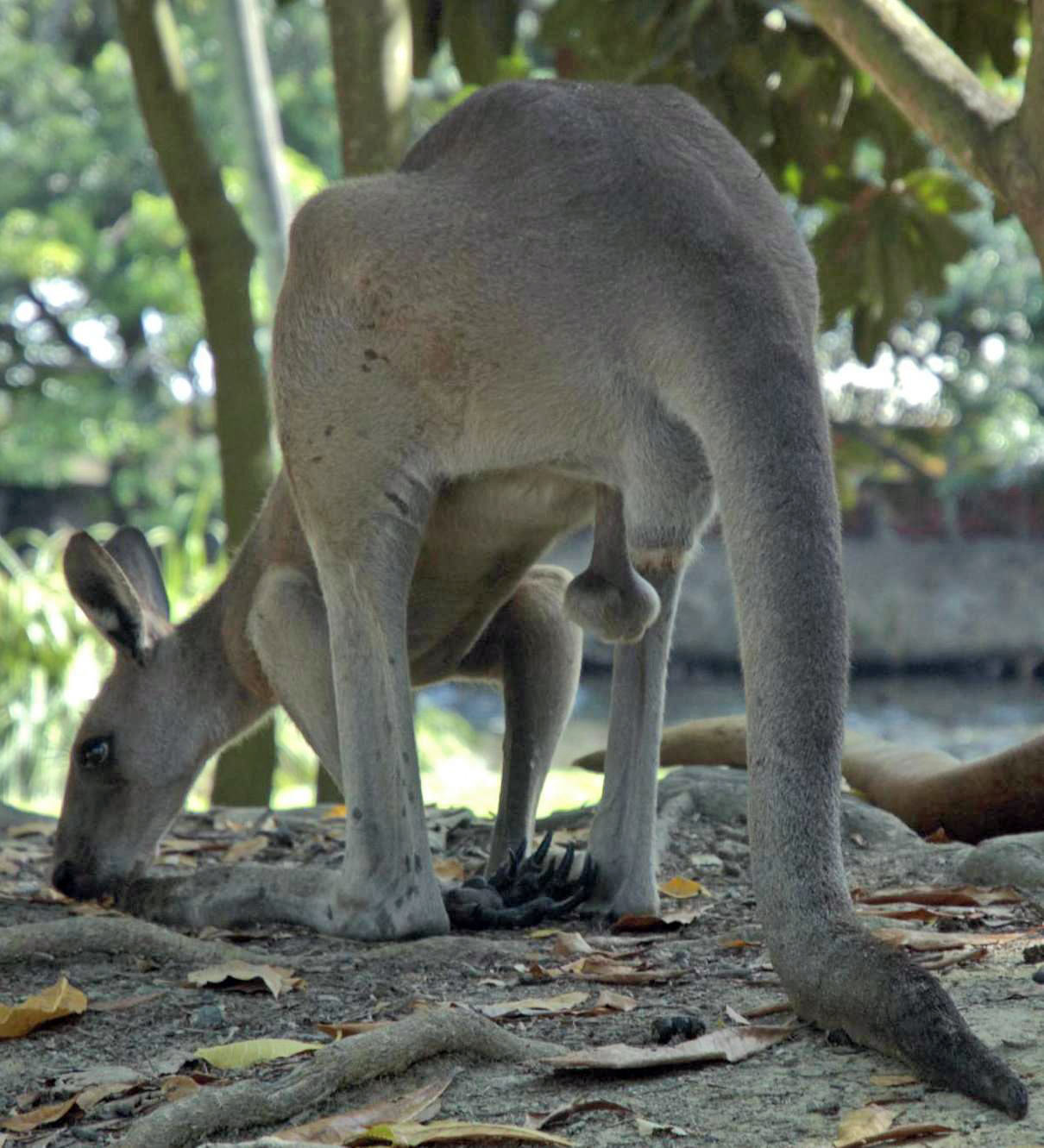 A male kangaroo will lower his scrotum in hot weather to keep it away from the heat of the body and avoid damaging the testes. Picture taken in Port Douglas Zoo in December 2005. пан Бостон-Київський 07:29, 28 January 2006 (UTC)